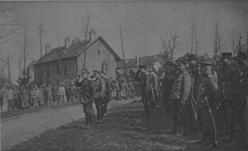 General Lokhvitsky, commander of the Russian Expeditionary Force in France with General Palitzine watching Russian troops in Courcy after the Nivelle Offensive.